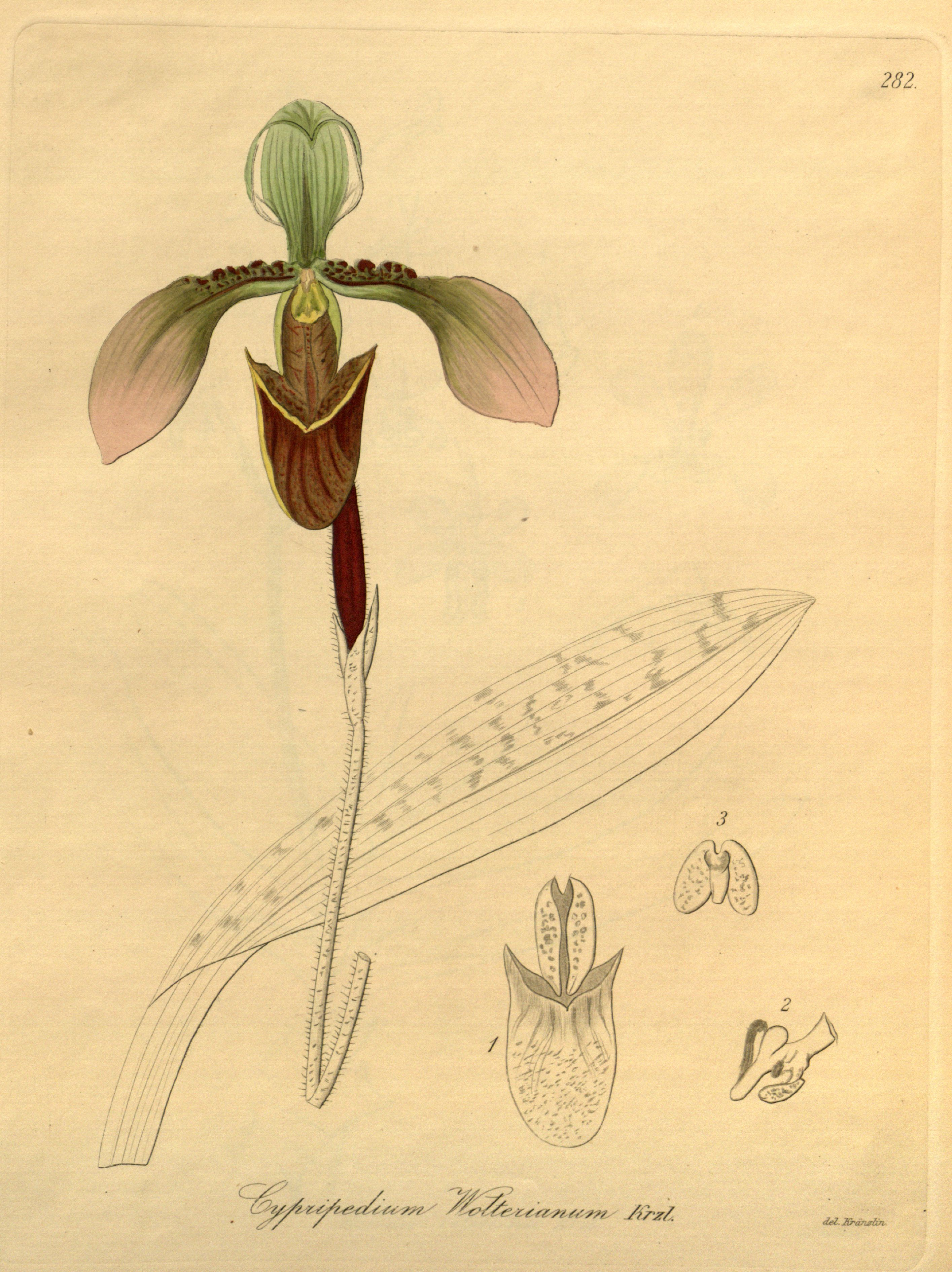 Illustration of Paphiopedilum appletonianum (as syn. Cypripedium wolterianum)